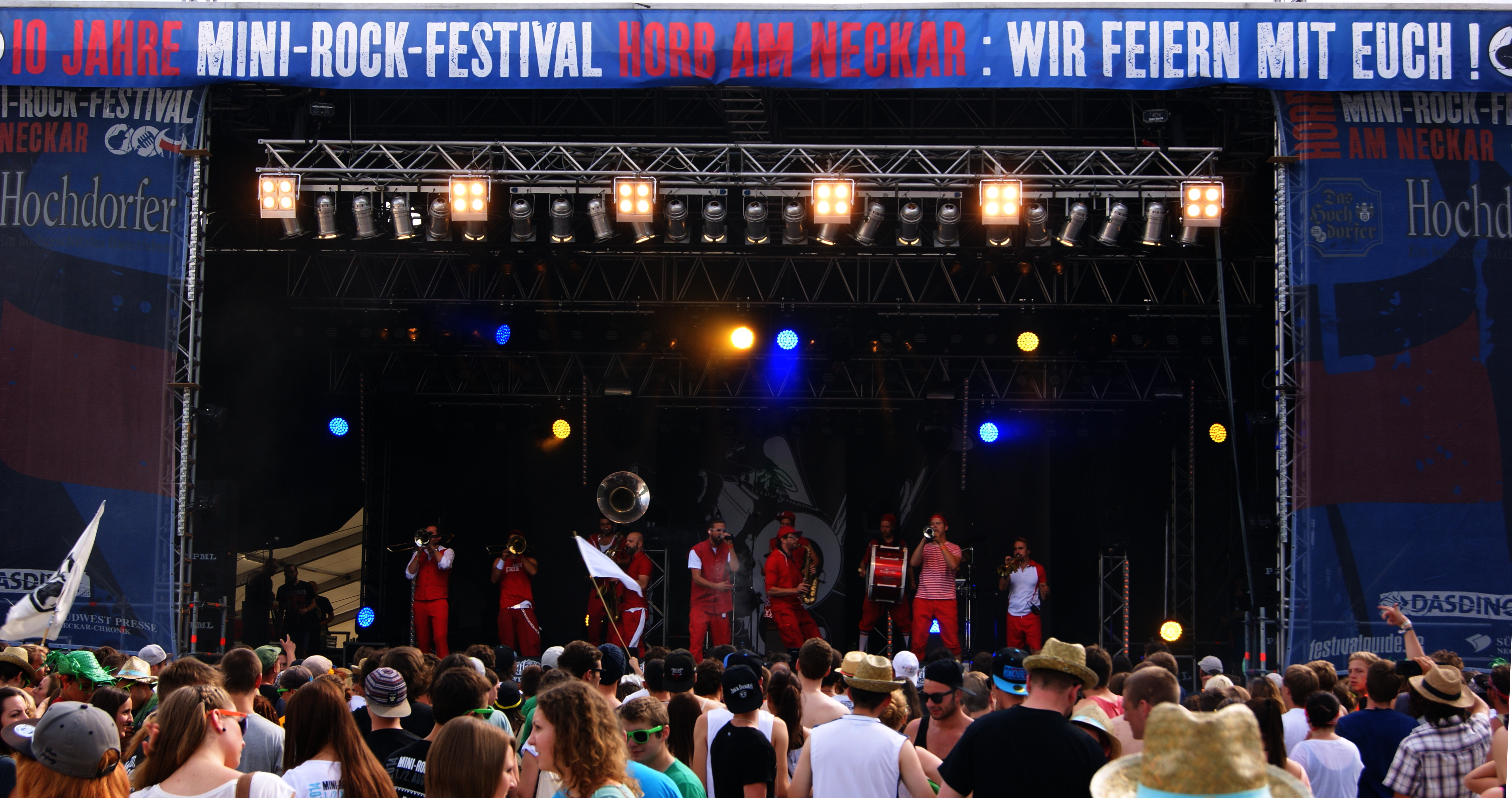 Moop Mama at the Mini-Rock-Festival 2014 in Germany